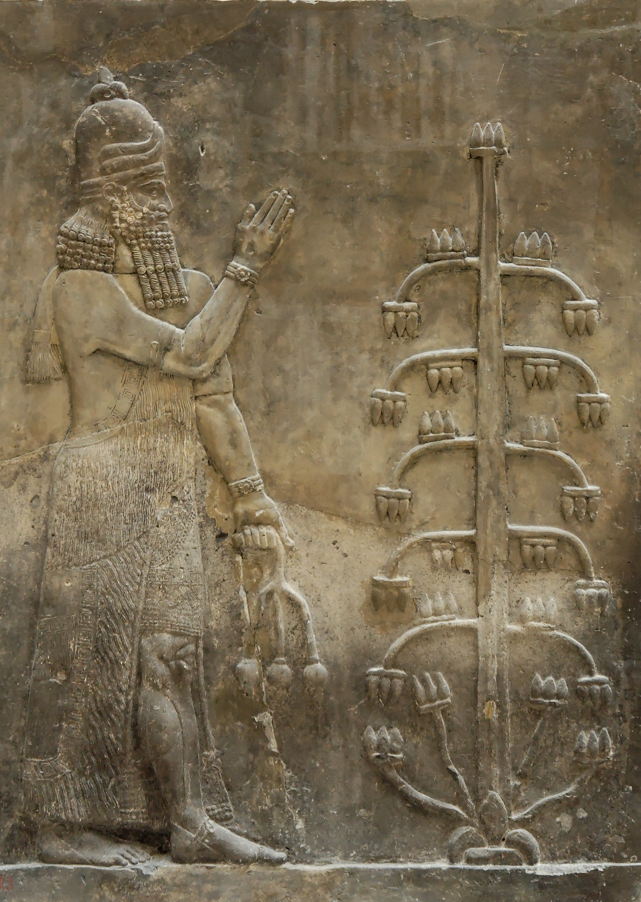 Genie with a poppy flower. Relief from the Palace of king Sargon II at Dur Sharrukin in Assyria (now Khorsabad in Iraq), 716–713 BC.